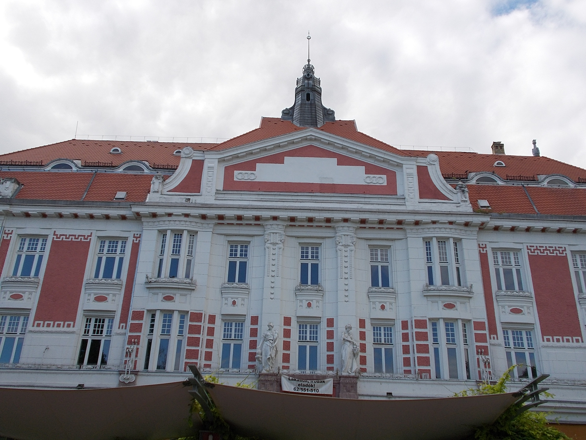 Art Nouveau, listed building by Flóris Korb and Kálmán Giergl. Former bank, news agency. - Szabadság Square, Kecskemét, Bács-Kiskun County, Hungary.